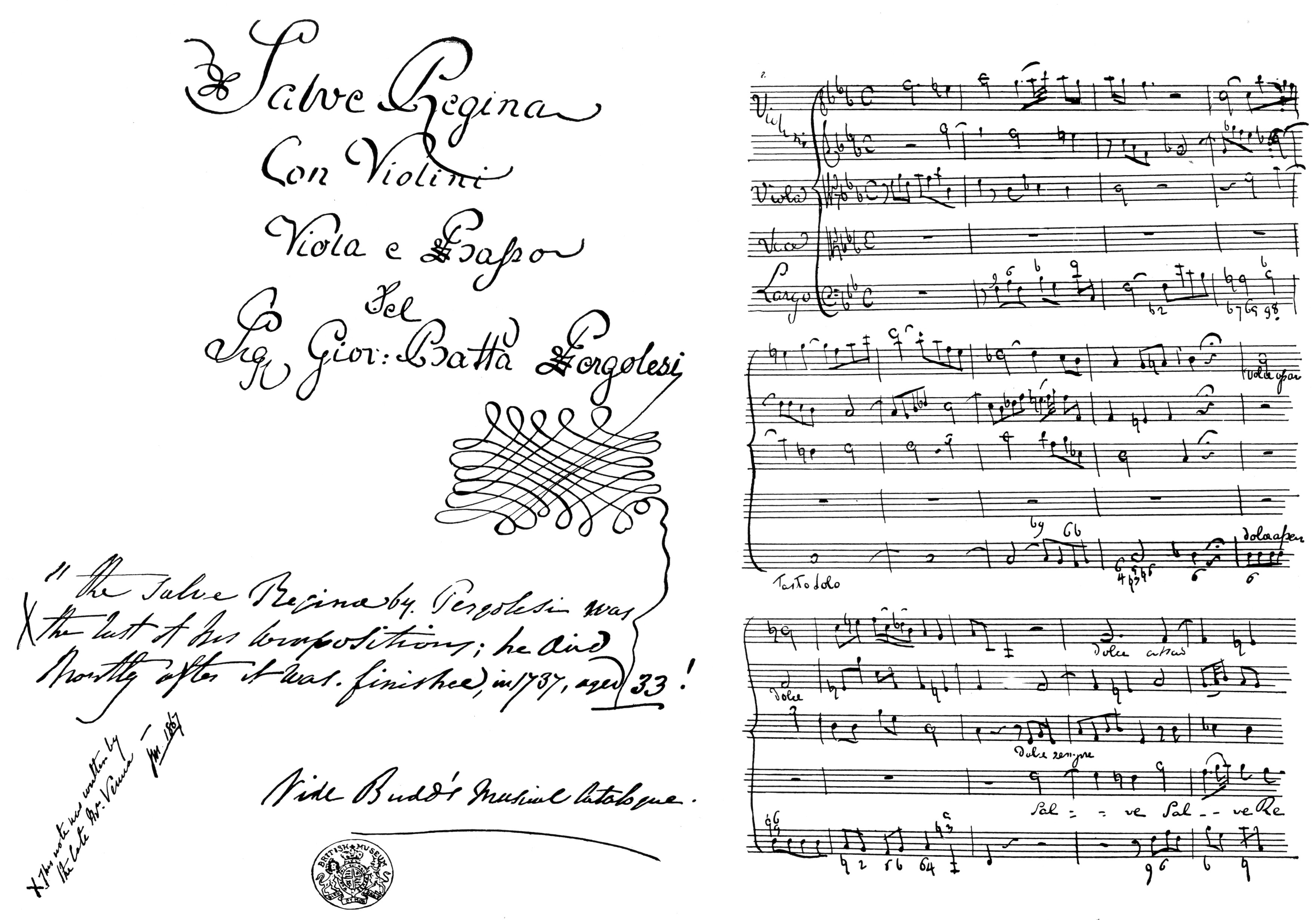 "Reproduction of original title-page and a portion of musical manuscript of the celebrated "Salve Regina," by Pergolesi, now in the possession of the British Museum. The added note on title-page made by Mr. Venna is probably incorrect, for the best authorities agree that he died in 1736, aged 26. "